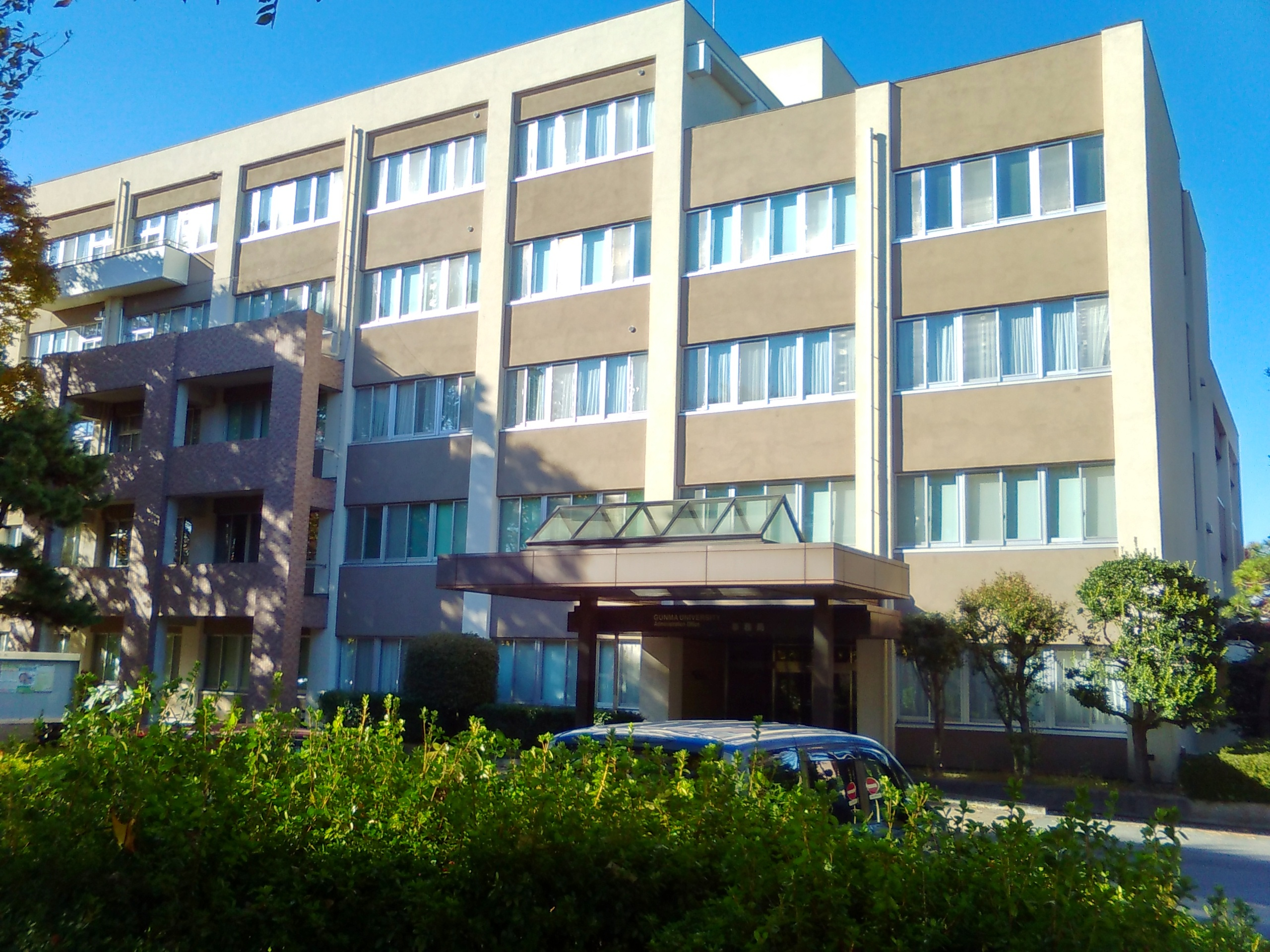 Administration Office at Gunma University Aramaki Campus in Maebashi, Gunma, Japan.